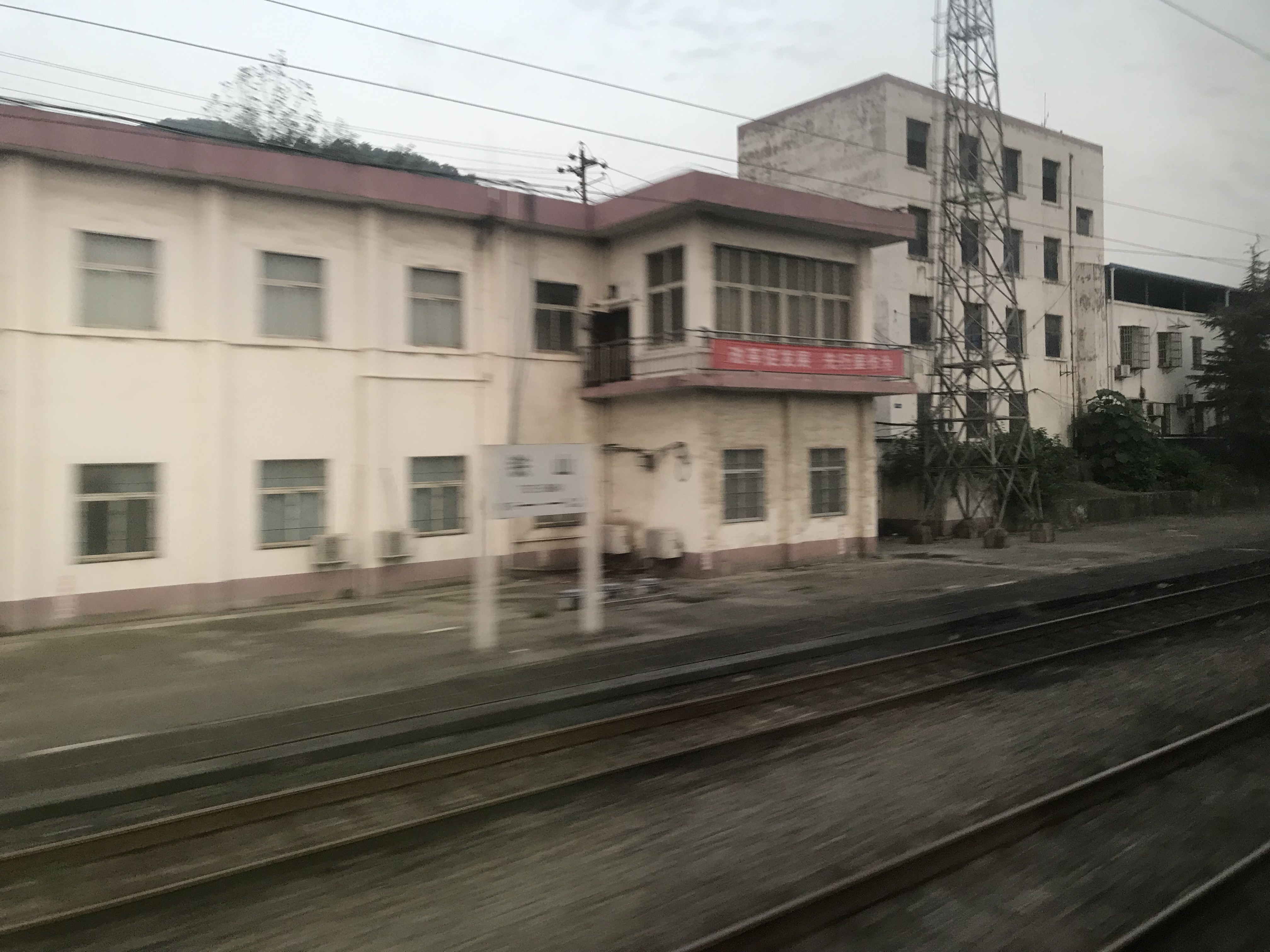 Reminds me of P’yŏngan-pukdo Cholsan-gun